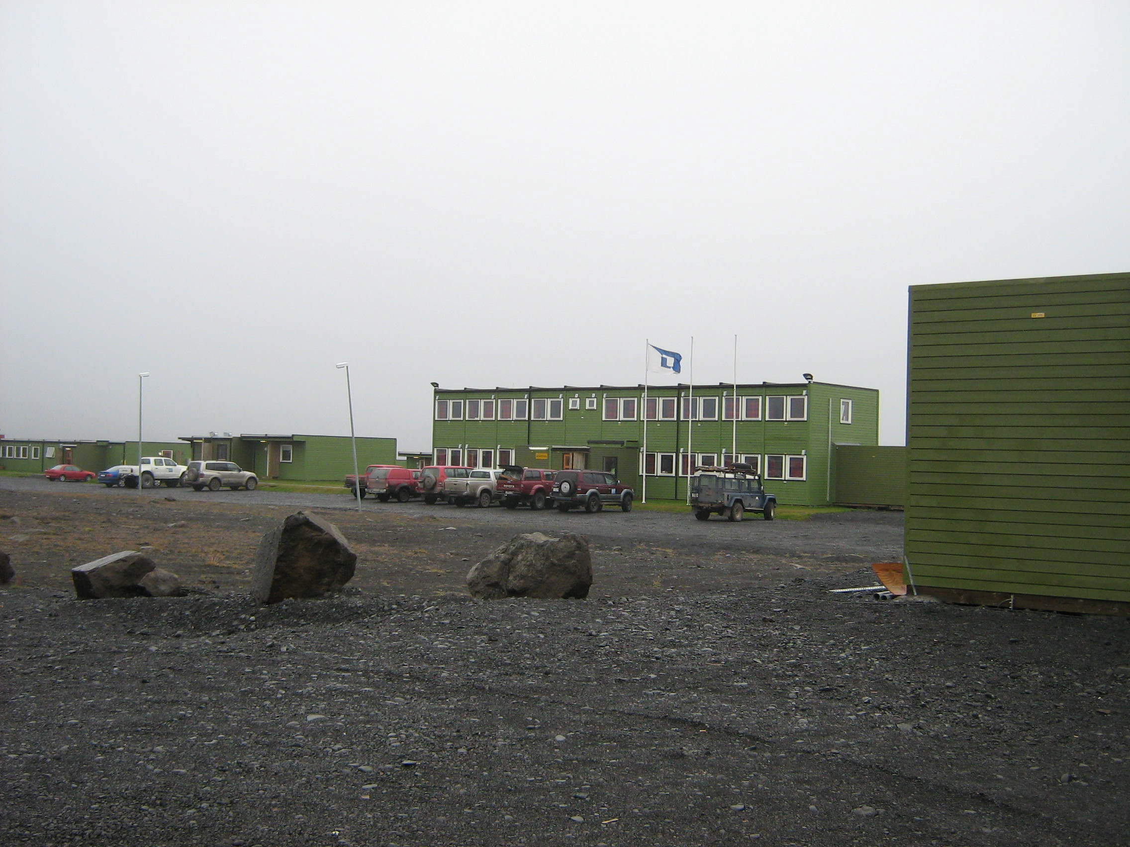 The camps for the workers at Kárahnjúkar. A large portion of the workforce is imported.